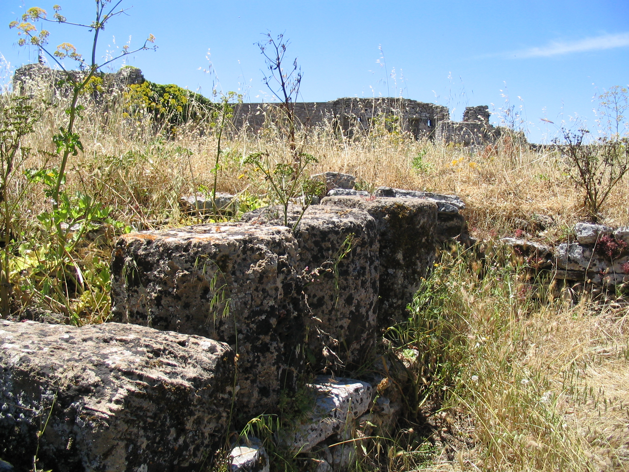 Fortress of Erice, Sicily, Italy. In the foreground: Remains of the ancient temple of Venus erycina.